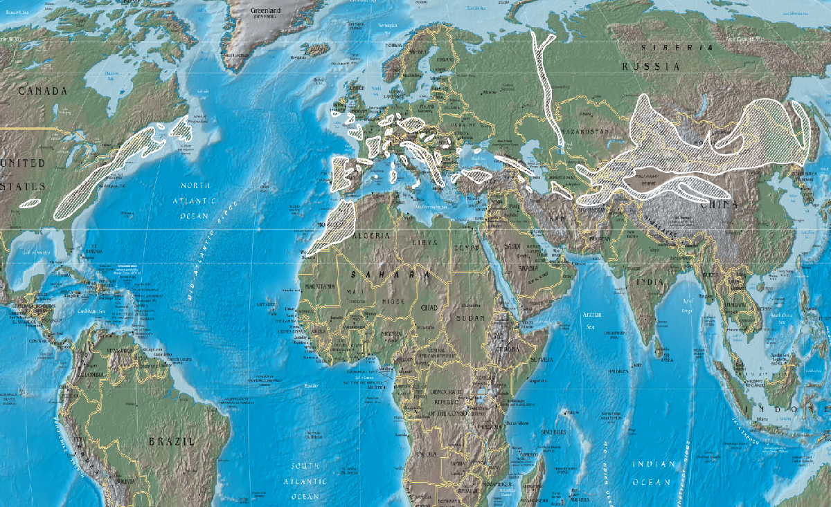 Distribution of varisican chains s.l.